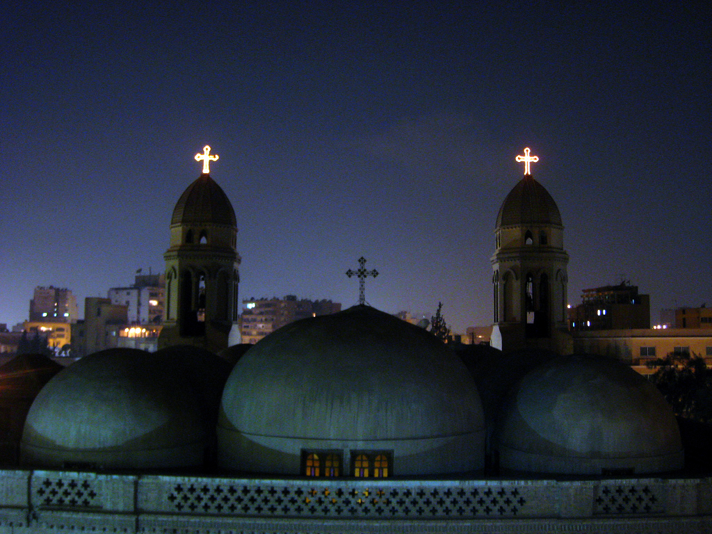 Domes of St. Mark Church at night, Heliopolis